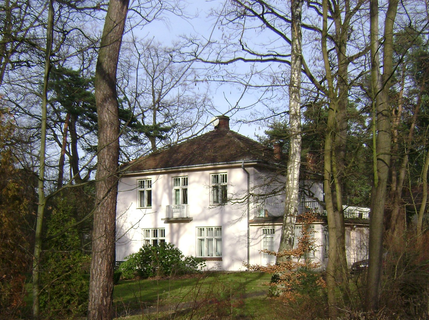 Poland. Konstancin-Jeziorna